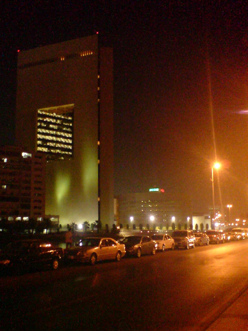 National commercial bank